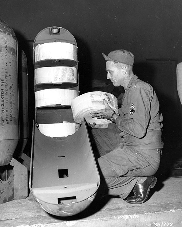 Photo #: NH 97050 Korean War Psychological Warfare "SFC Furl A. Krebs loads an M16M1 cluster adapter at the FEC {Far Eastern Command} Printing Plant, Yokohama, Japan. The bomb type adapter will contain 22,500 (5" x 8") psychological warfare leaflets. 1 November 1950." Quoted from the original photo caption. Leaflets all appear to be written in Korean. Official U.S. Army Photograph, from the "All Hands" collection at the Naval Historical Center. Bild:Korean-leaflet-bomb.jpg